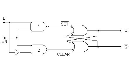 Latch D